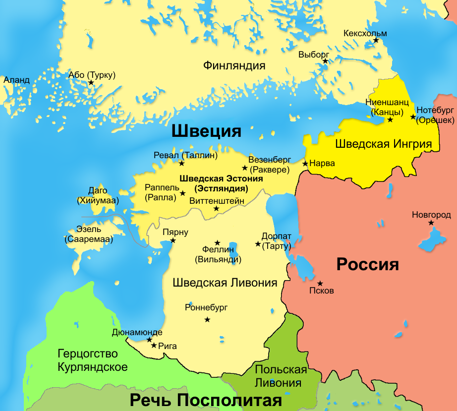 The Baltic provinces of the Swedish Empire in the 17th century, with Russian country names and place names that were used at the time and later. A Swedish version also exists: Sw BalticProv sv.png